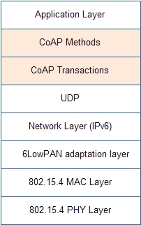 Stack ISO with CoAP